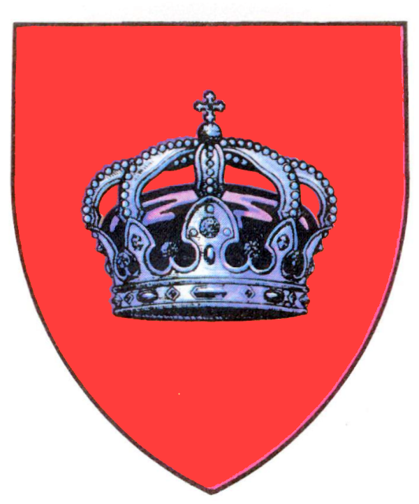 Interwar coat of arms of Brașov County, Kingdom of Romania.